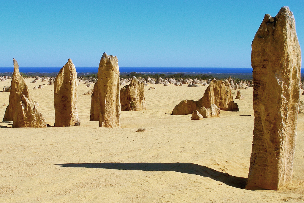 Nambung National Park, Western Australia, pinnacles and the Indian Ocean